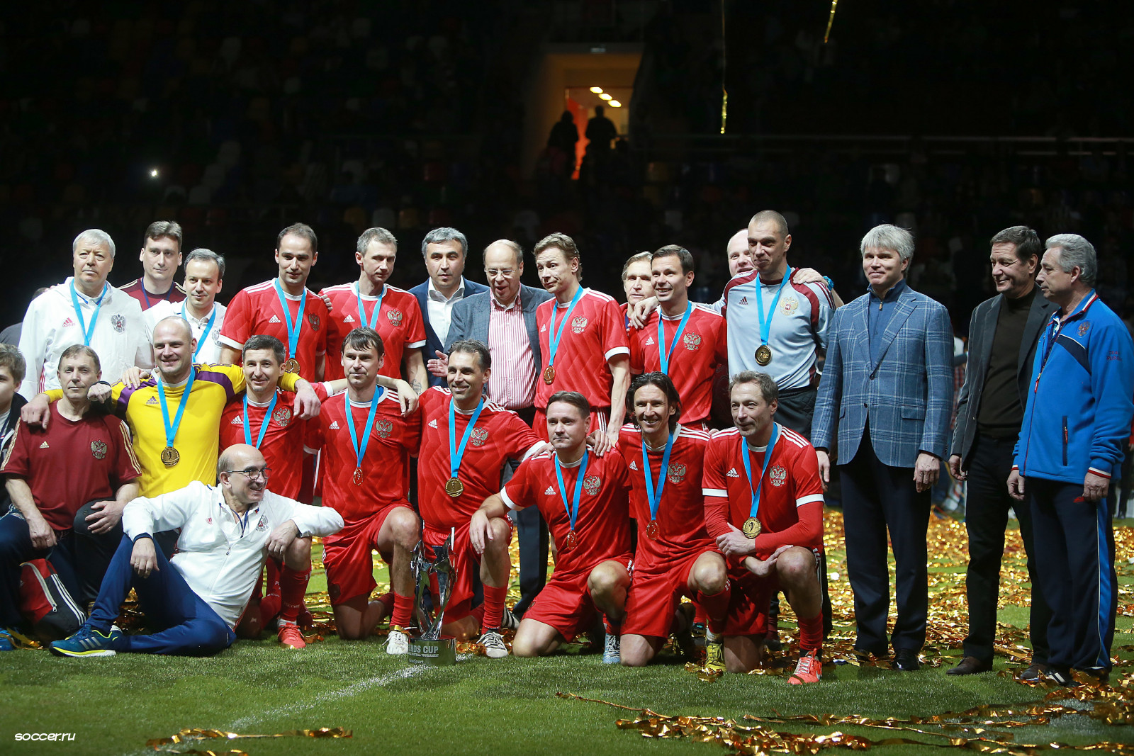 Legends Cup 2017